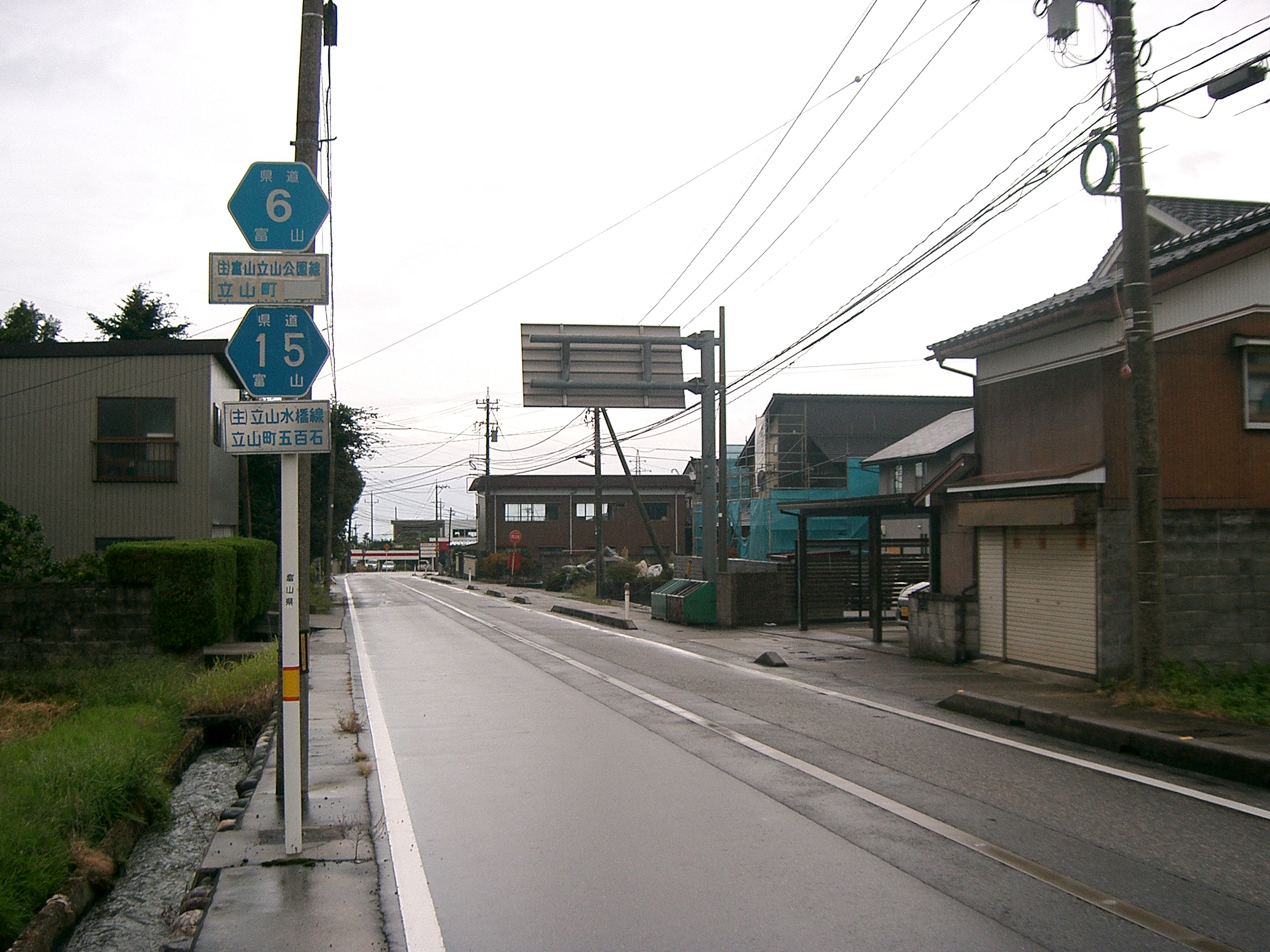 Toyama prefectural road 6 Toyama-Tateyamakouen line and 15 Tateyama-Mizuhashi line. Looking north from Gohyakukoku, Tateyama town.